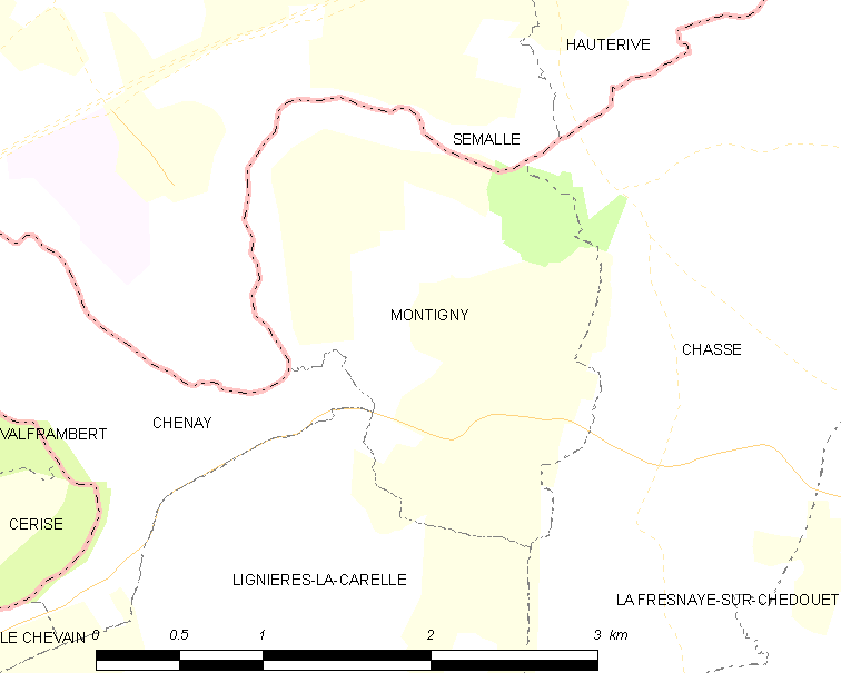 Map of French municipality